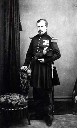 Pierre Marie Philippe Aristide Denfert-Rochereau (1823-1878), french officer and member of the French Parliament.